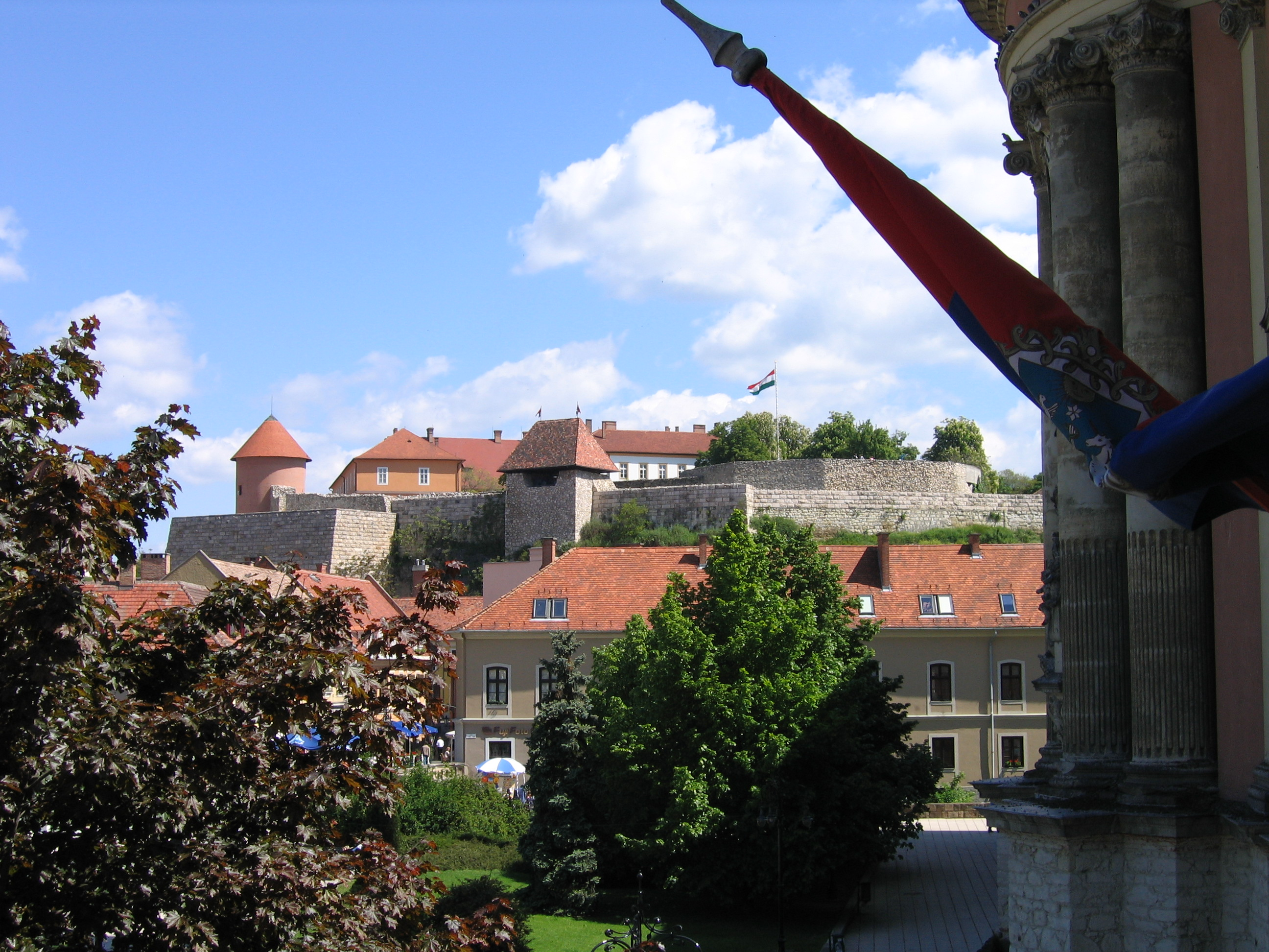 Castle, Eger, Hungary